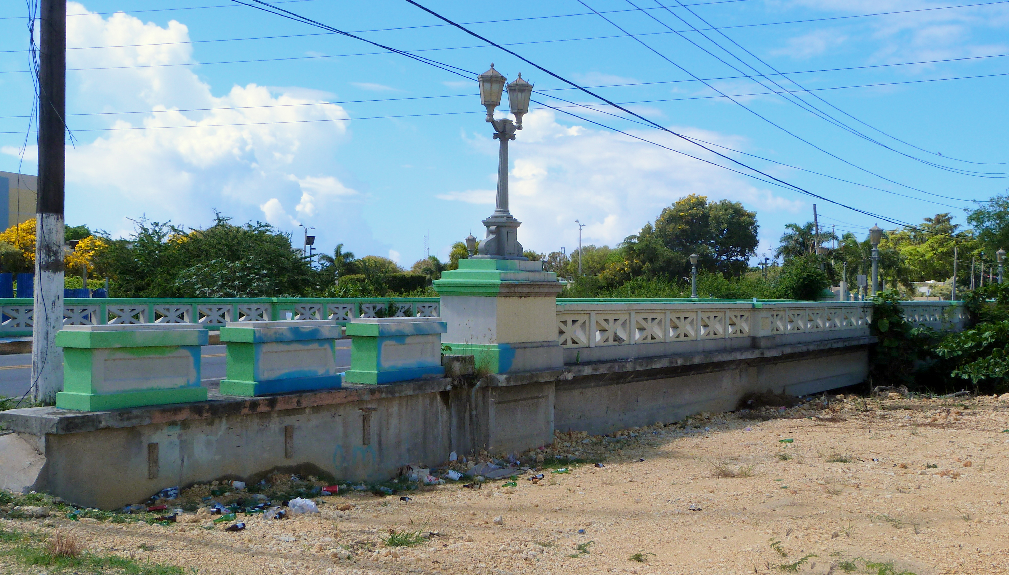 The historic Puente Río Portugués (built 1933), spanning the historic channel of the Portugués River on Puerto Rico Highway 123 (Avenida Eugenio María de Hostos) at km 3.5 in Ponce, Puerto Rico, is listed on the U.S. National Register of Historic Places.